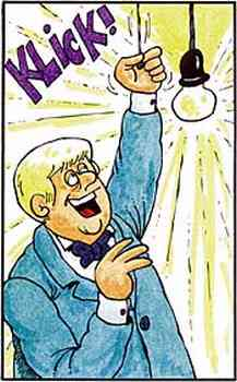 "Thomas Alva Edison testet die soeben erfundene Glühlampe" ("Edison testing the just invented light-bulb", I.Astalos) by permission of the author